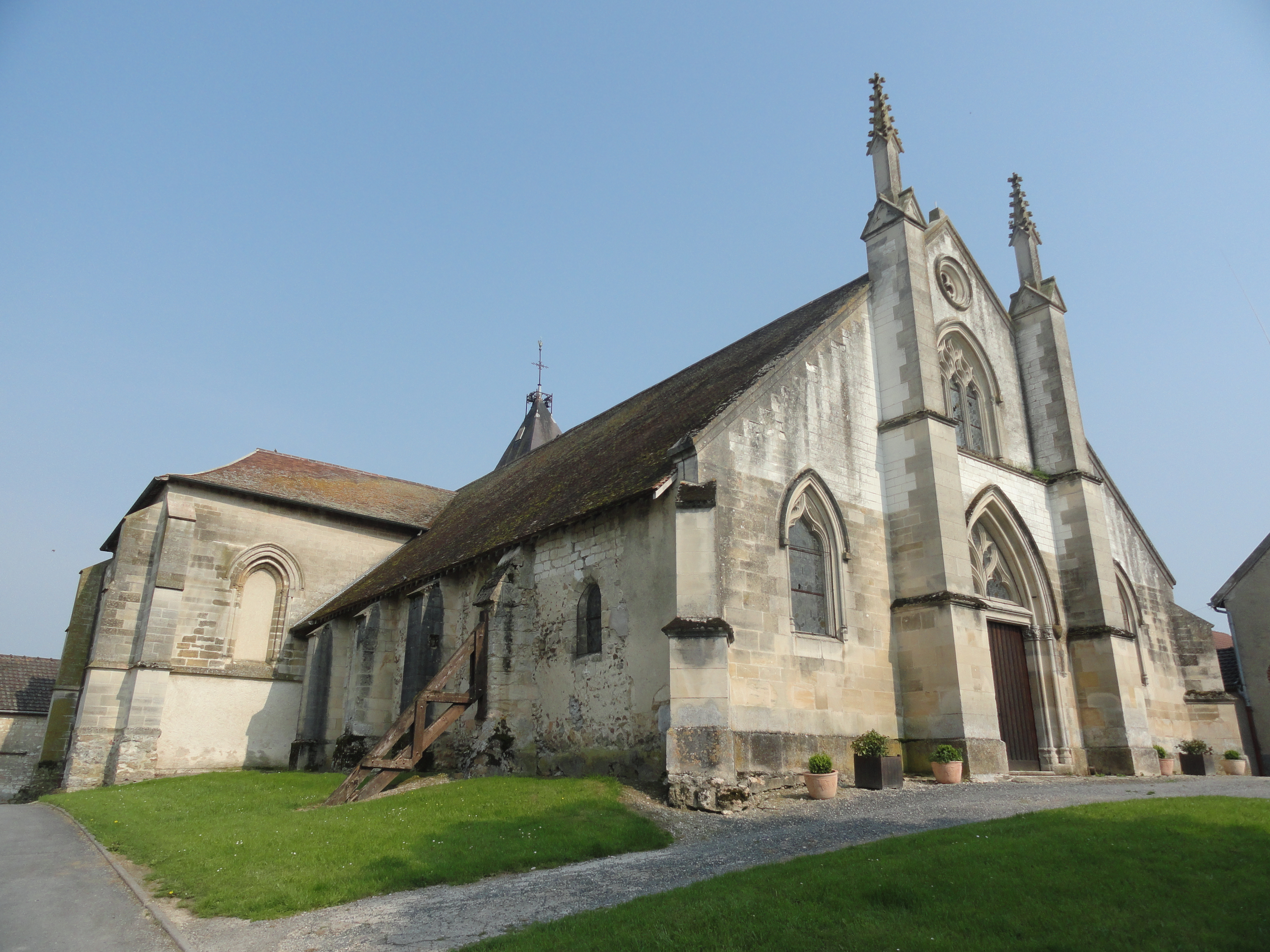 Church of Bisseuil (Marne)